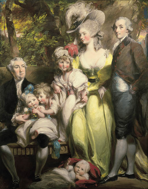 Group portrait of Sir John Taylor, 1st Bt., F.R.S. (1745-1786), his wife Elizabeth (d. 1821), his brother Simon Taylor (1740-1813), and four of their six children; Sir Simon Richard Brissett, 2nd Bt. (1783-1815), Anna Susanna (1781-1853), Elizabeth (b. 1782) and Maria (1784-1829), (pencil, pastel and bodycolour, 104 x 81.4 cm) Note Simon was the elder brother